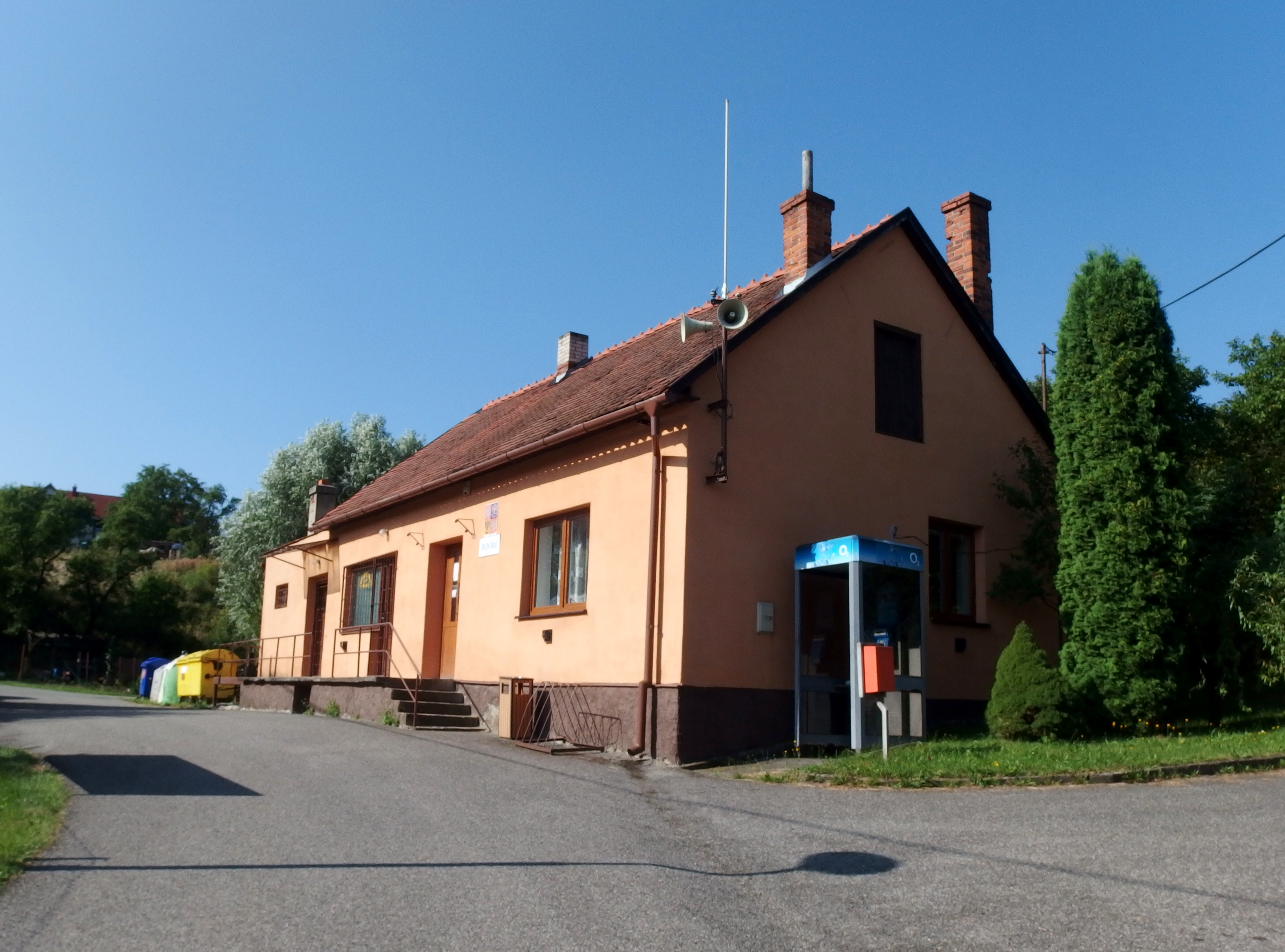 Provodovice, Přerov District, Czech Republic.